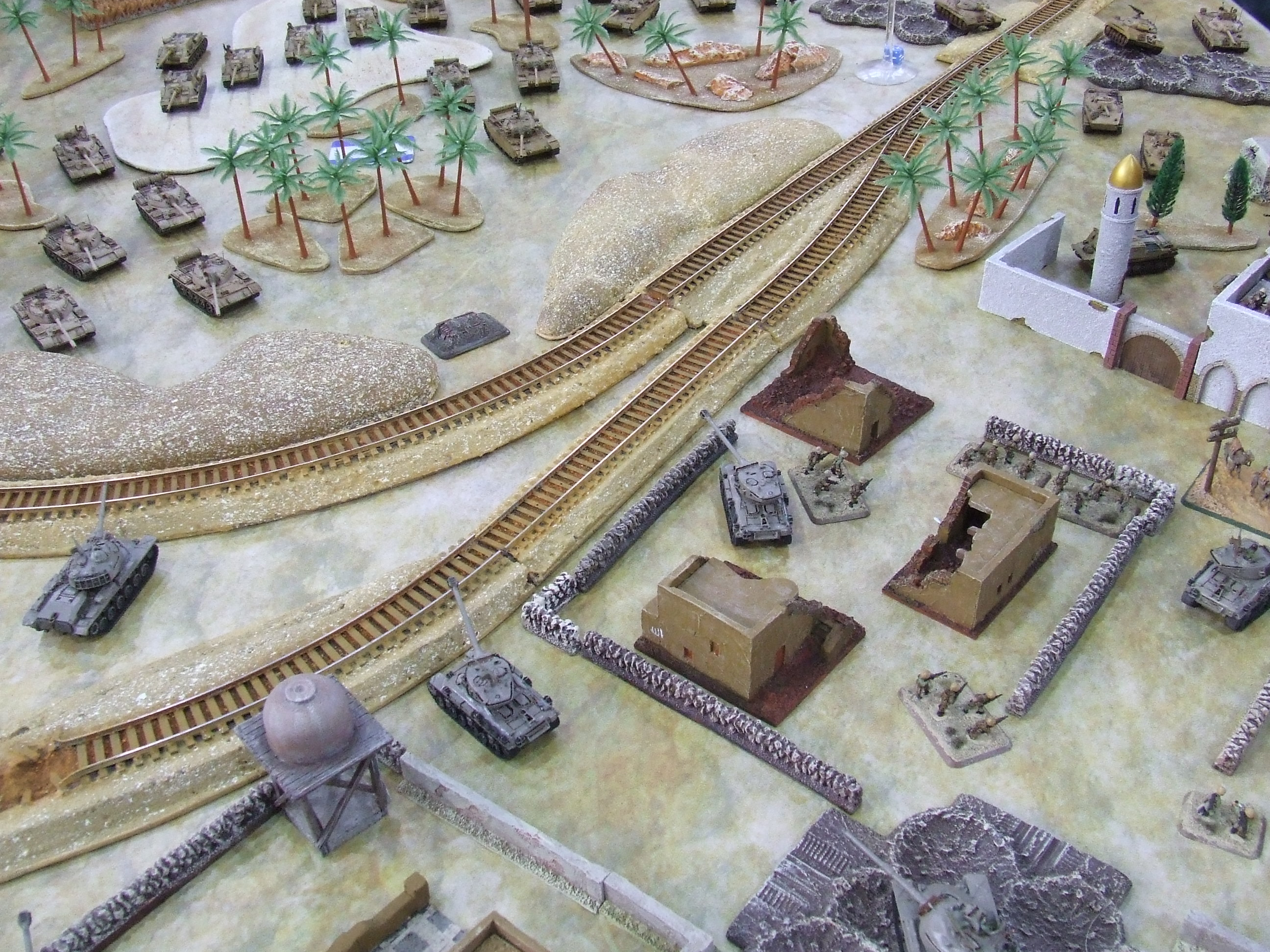 Games Day 2015, Budapest